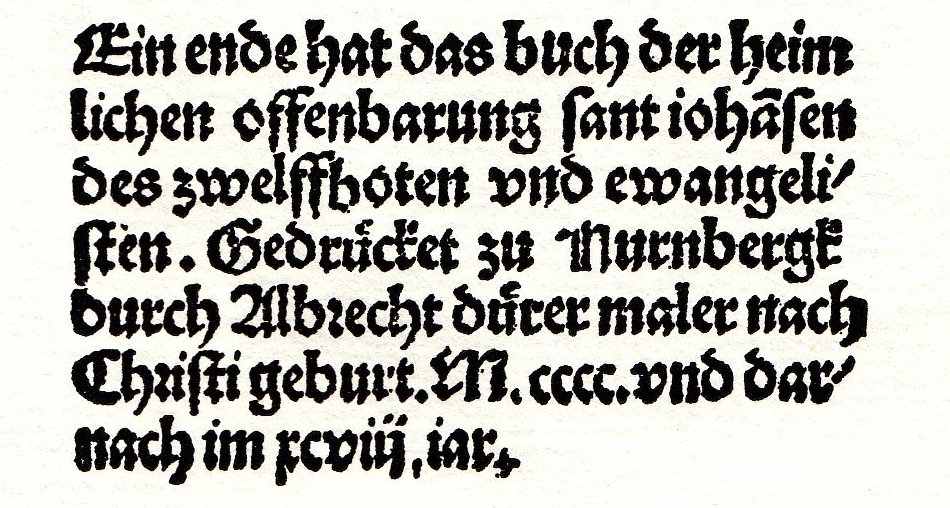 Colophon of Albrecht Dürer's apocalypse published in Nuremberg in 1498